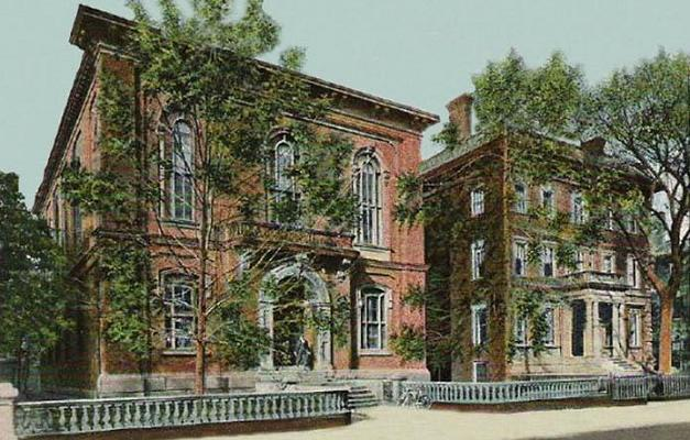 Plummer Hall & John Tucker Daland House, Salem, MA; from a c. 1906 postcard. Plummer Hall (1856), on the left, was designed by Enoch Fuller to house the Salem Athenaeum, a private library. The John Tucker Daland House (1851) was designed by Gridley F. Bryant. They are now part of the Peabody Essex Museum.